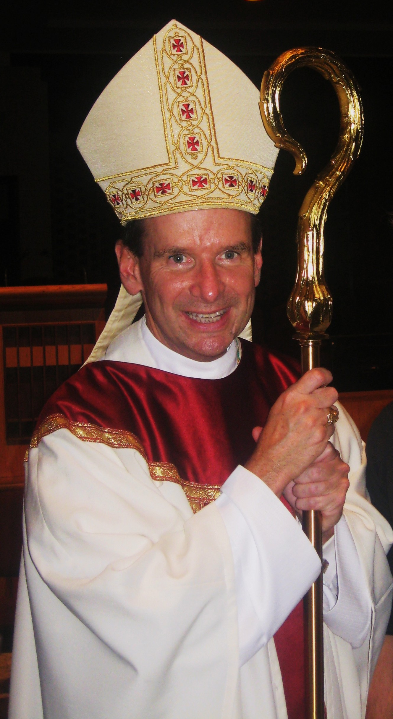 Michael Francis Burbidge, bishop of the Roman Catholic Diocese of Raleigh, seated at Sacred Heart Cathedral. This is a picture of His Excellency at a Sacrament of ConfirmationConfirmation Mass (liturgy)mass on the Feast of St. Michael at Saint Raphael the Archangel Catholic Church. This photo was taken by User:Willthacheerleader18 Summary Michael Francis Burbidge, bishop of the Roman Catholic Diocese of Raleigh, seated at Sacred Heart Cathedral. This is a picture of His Excellency at a Confirmation mass on the Feast of St. Michael at Saint Raphael the Archangel Catholic Church. This photo was taken by User:Willthacheerleader18